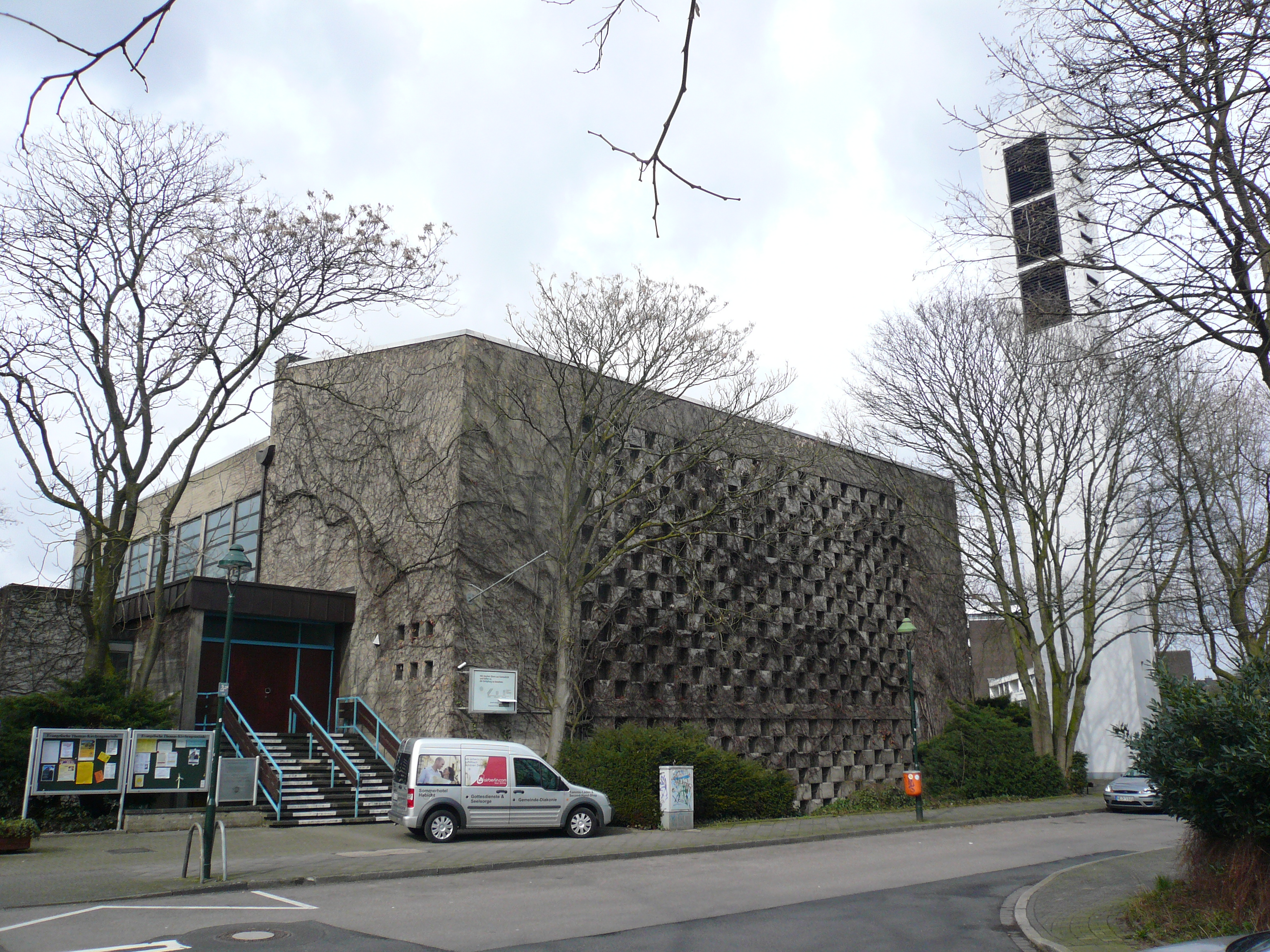 Thomas church (protestant) Düsseldorf, Germany